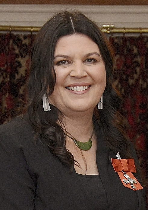 Ainsley Gardiner, after her investiture as MNZM, for services to film and television, on 25 September 2018